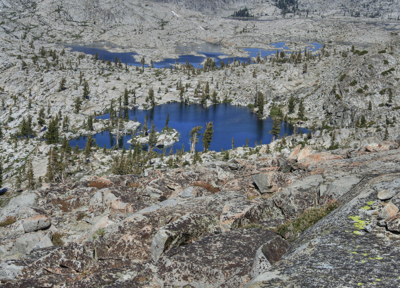 Waca Lake — in the Desolation Wilderness area of the Eldorado National Forest, in the Sierra Nevada, California.